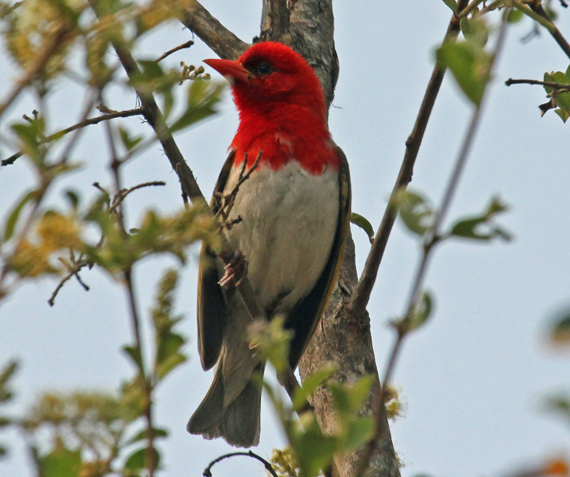 A male Red-headed Weaver in breeding dress, in the Kruger National Park, South Africa